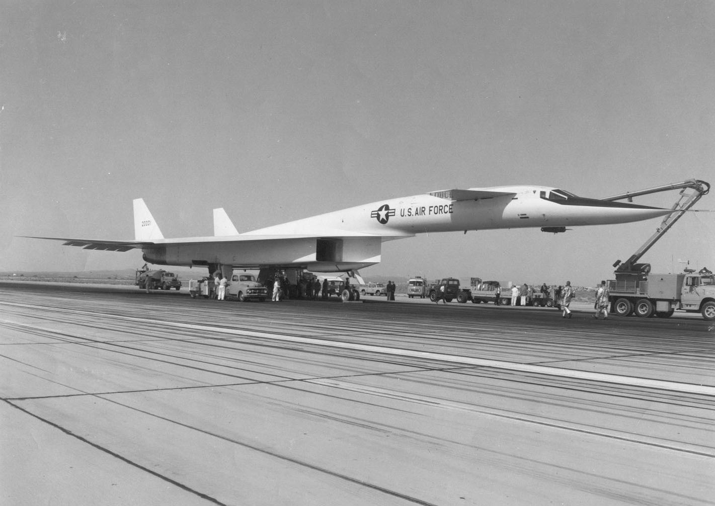 North American XB-70A Valkyrie on the taxiway with a cherry picker. Photo taken Sept. 21, 1964, the day of the first flight. Note: the left main landing gear brakes locked during the landing causing two tires to blow. (U.S. Air Force photo)